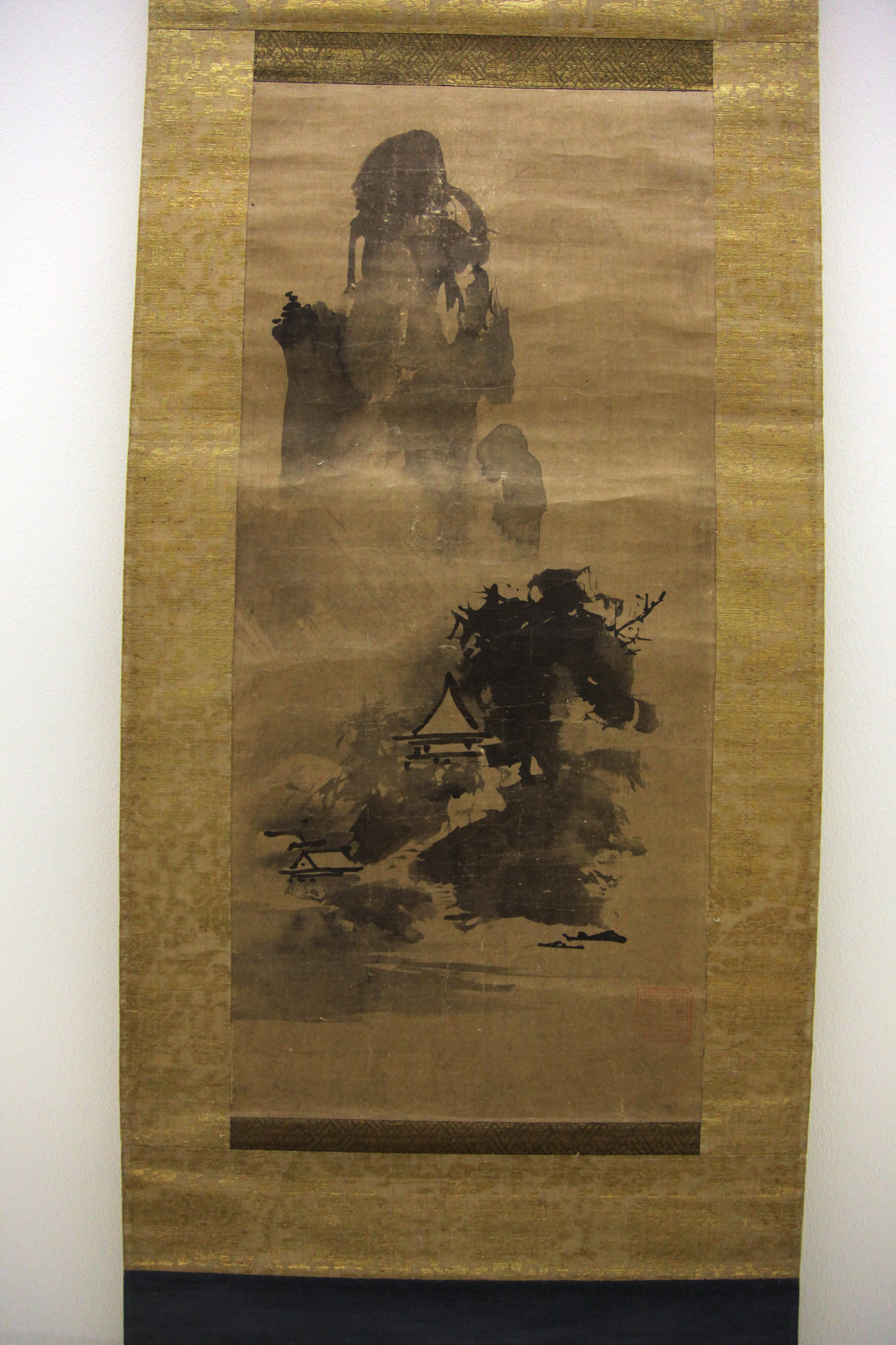 Temple in a rocky landscape. Roll by an anonymous author in the style of Sesshū. Ink on paper. Musée Guimet, Paris. Donated by Atherton Curtis in 1938, AA 280. Kakemono : Temple dans un paysage rocheux